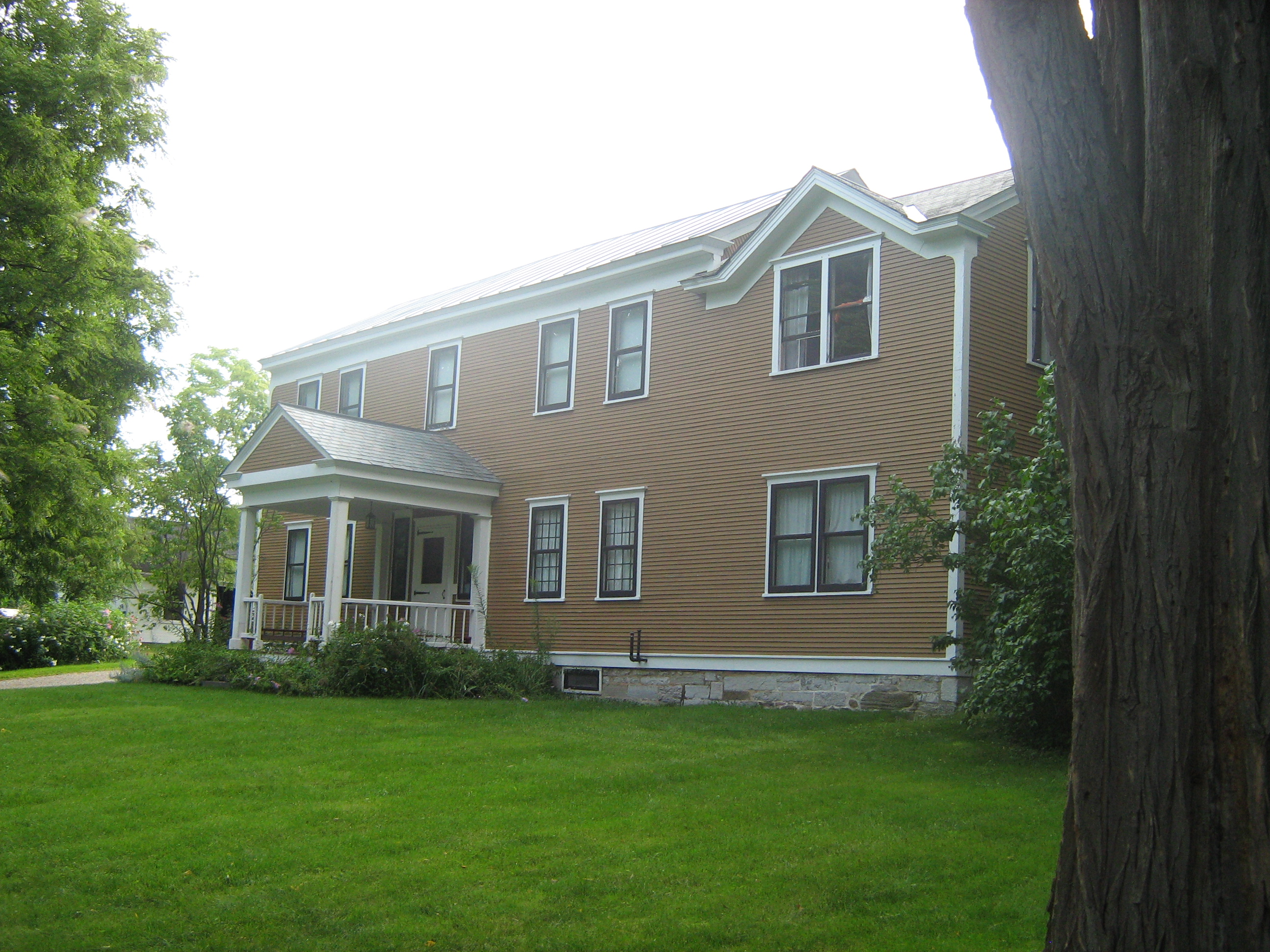 Rokeby, home of writer and illustrator Rowland Robinson. A Vermont stop on the underground railroad, listed on the National Register of Historic Places